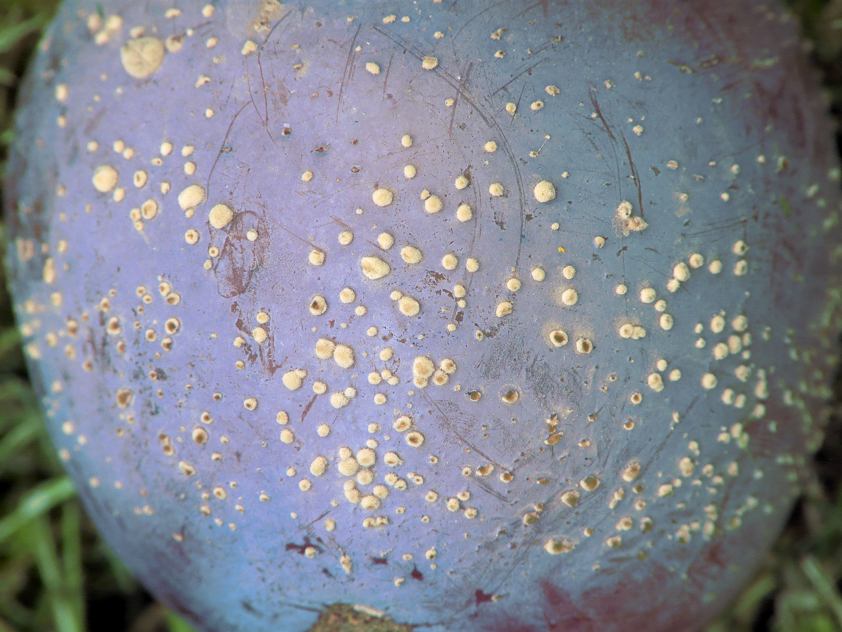 Prunus domestica 'Opal' with Monilinia fructigena